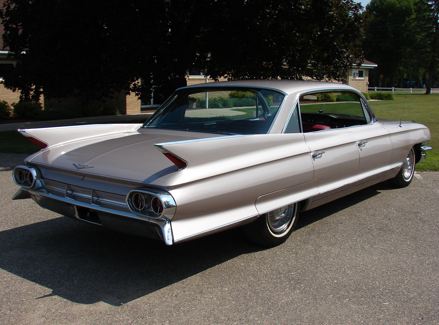 1961 Cadillac 6-window Sedan Deville